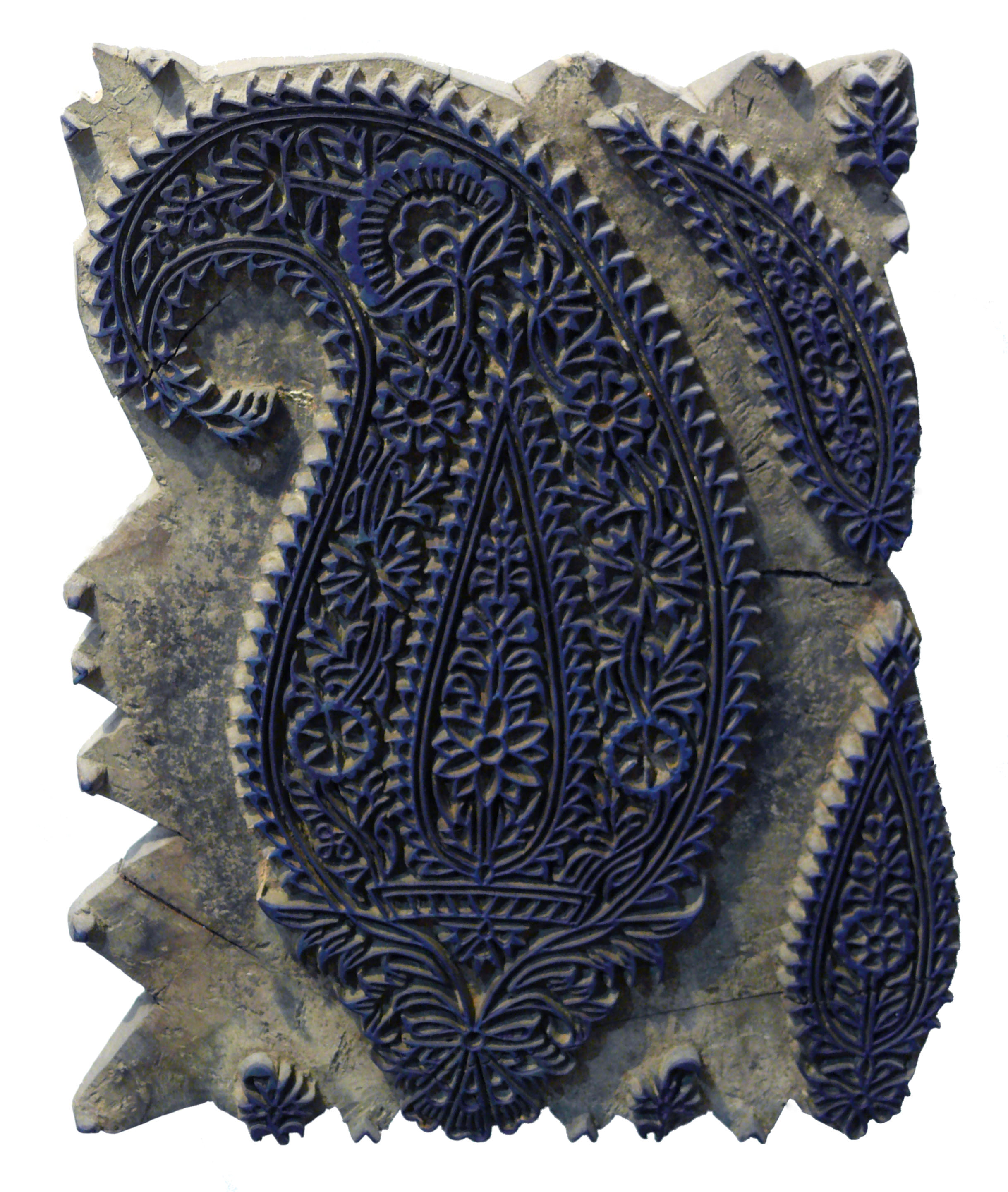 Stamp used for the traditional hand made printed tissues crafting in Esfahan, Iran.